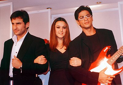 Audio Launch of Kal Ho Naa Ho